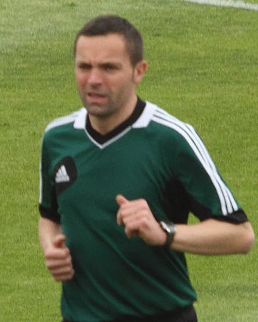 Michael Annonier, Stéphane Lannoy, Frédéric Cano warming-up before 2014 World Cup qualifiers game between Israel and Portugal.